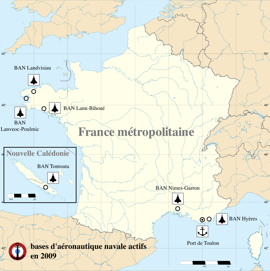 active bases of the French naval air arm (status 2009)